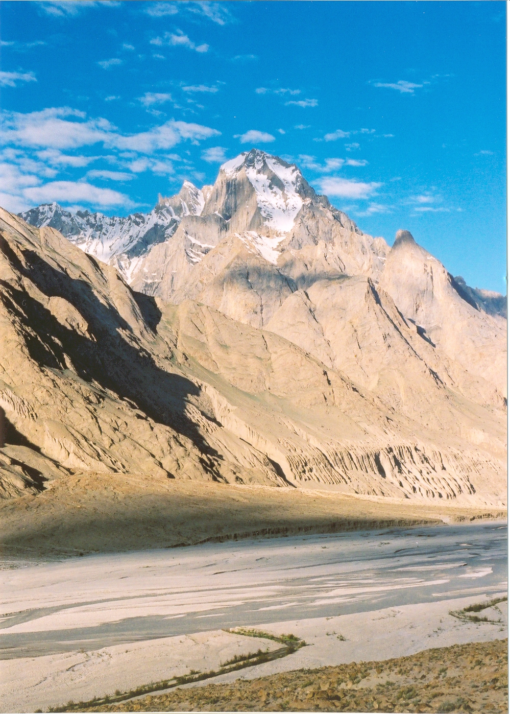 SW-Face of Paiju Peak above the Braldu River, west of the Baltoro Glacier